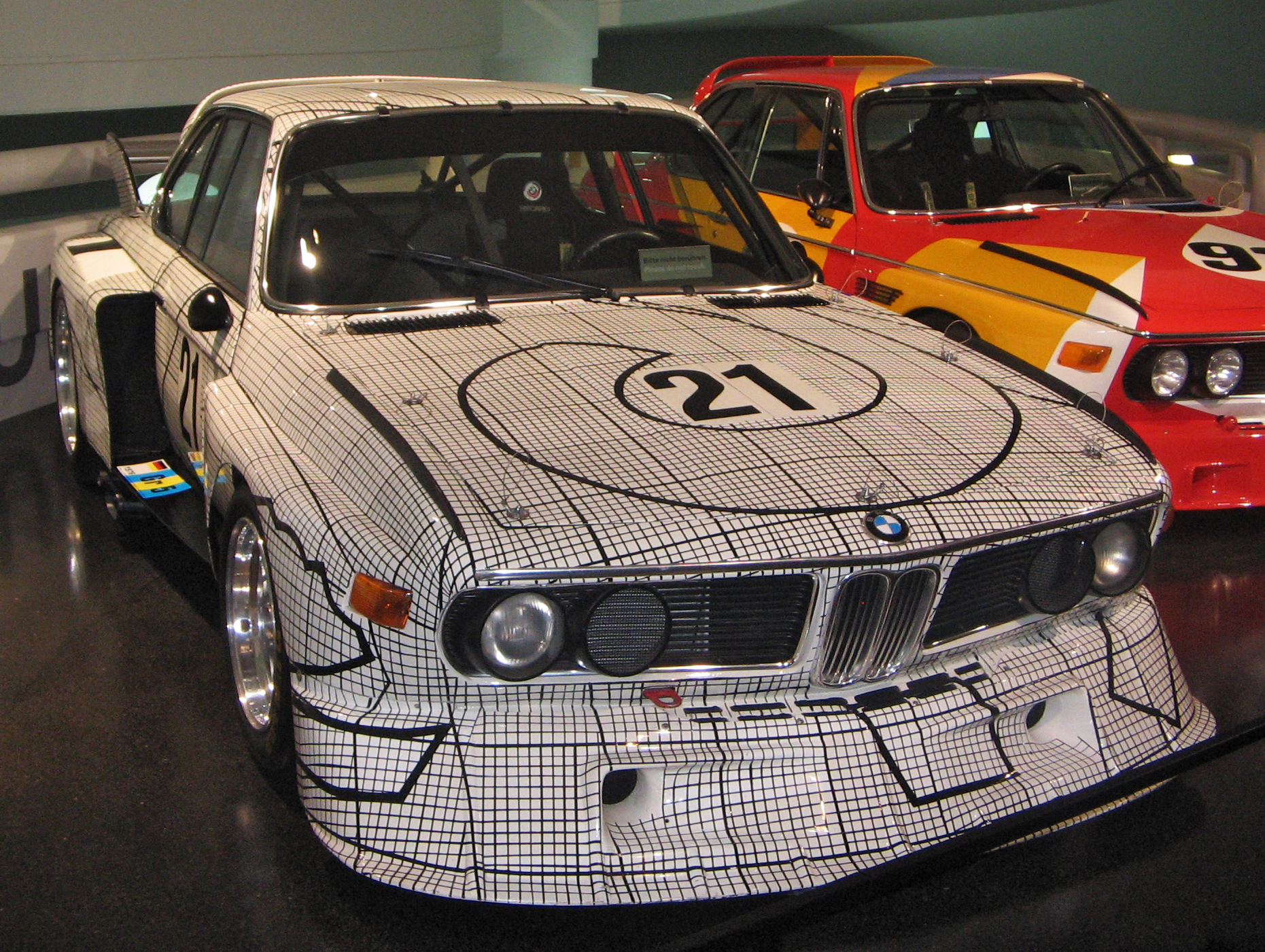 BMW Art Car (BMW 3.0 CSL) designed by Frank Stella at BMW Museum Munich